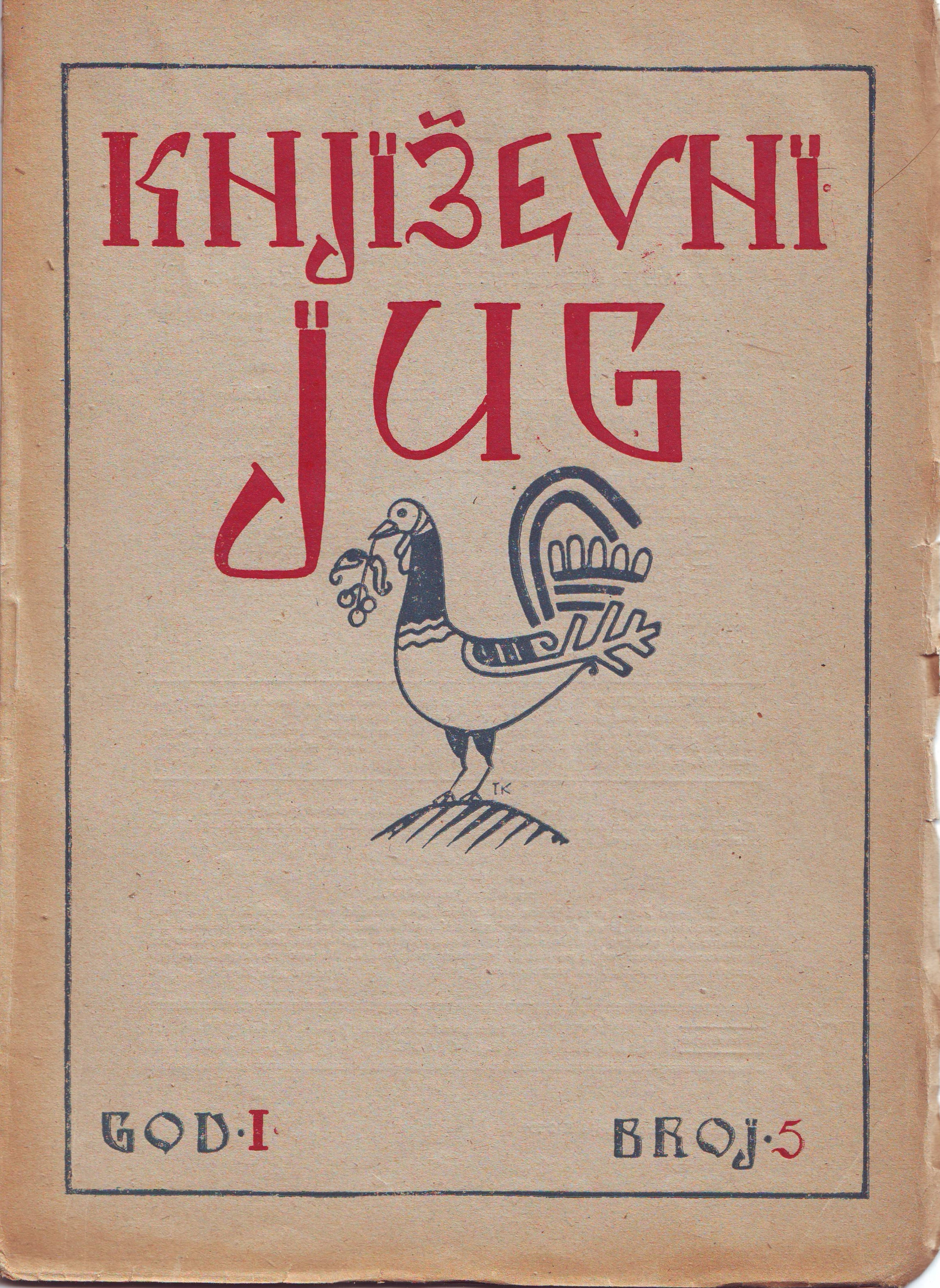 Front page of a literary journal Književni jug (1918). Srpski (latinica): Naslovna strana književnog časopisa Književni jug (1918).